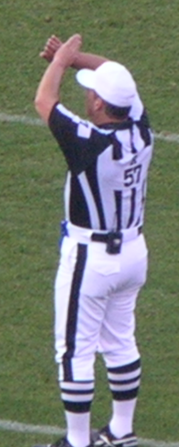 Referee Alberto Riveron signals during a game at Candlestick Park between the San Francisco 49ers and the St. Louis Rams. The 49ers won 35-16.